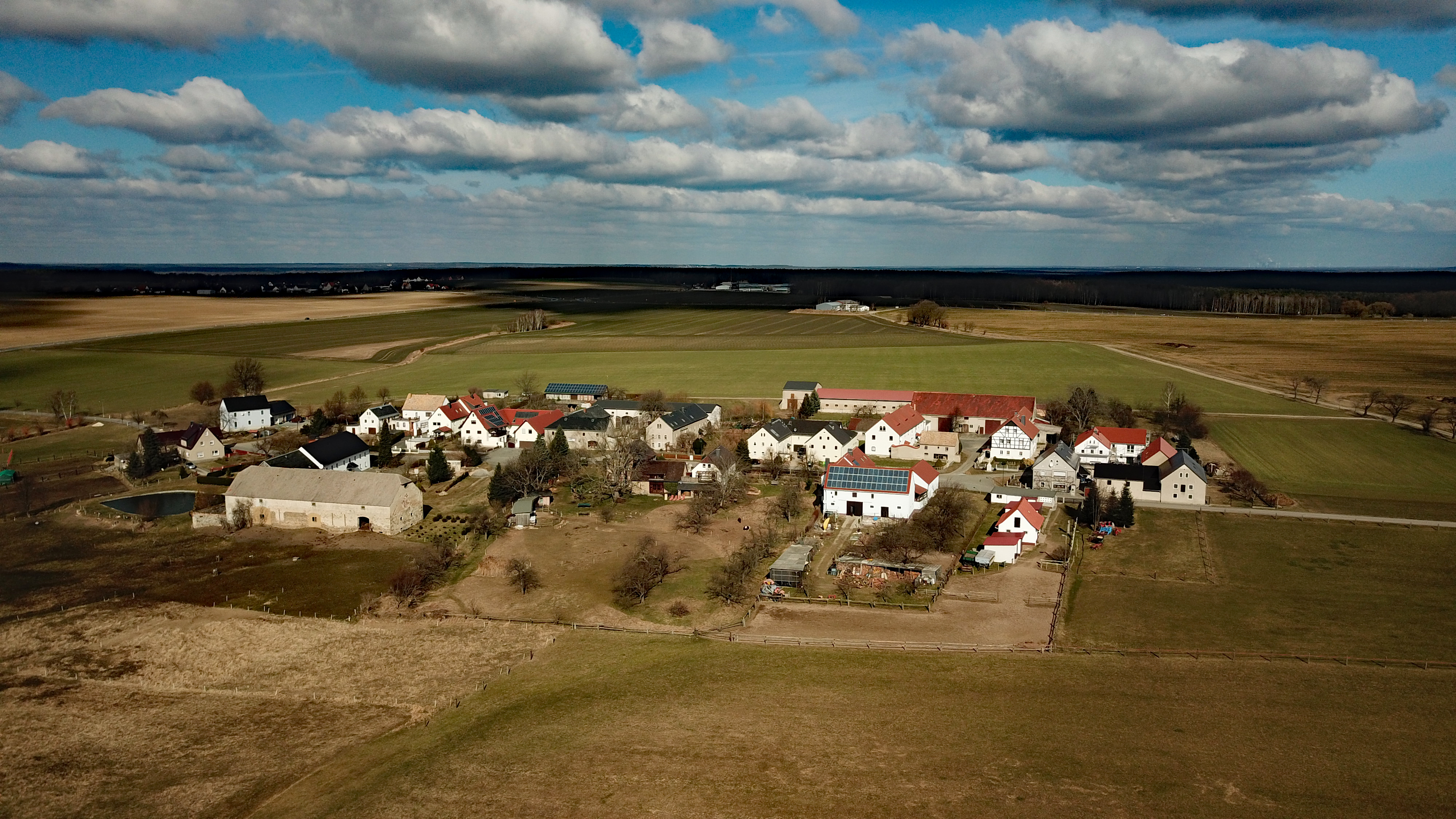 Dürrwicknitz (Nebelschütz, Saxony, Germany) Hornjoserbsce: Powětrowy wobraz Wěteńcy.